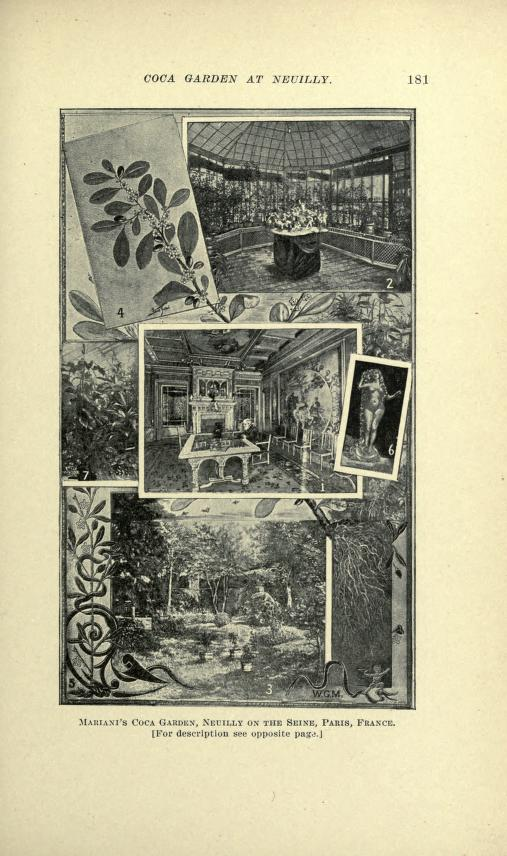 Serres et bureau d'Angelo Mariani à Neuilly-sur-Seine. Gravure d'après des photographies pour l'ouvrage de William Golden Mortimer, Peru, history of coca, the divine plant of the Incas with an introductory account of the Incas and of the Andean Indians of today.